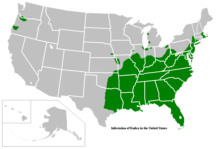 Areas of the United States affected by infestation of Kudzu.